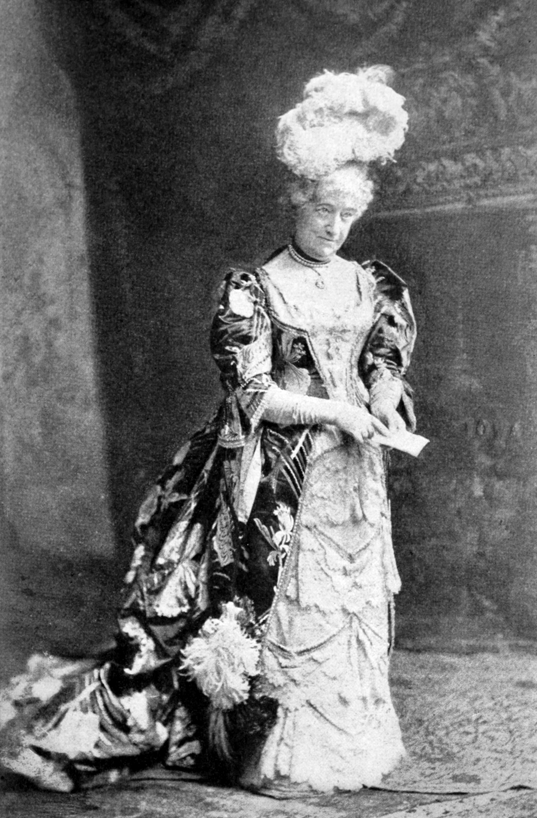 Photograph of Louisa Lane Drew as Mrs. Malaprop in an all-star revival of The Rivals to benefit Charles W. Couldock More information